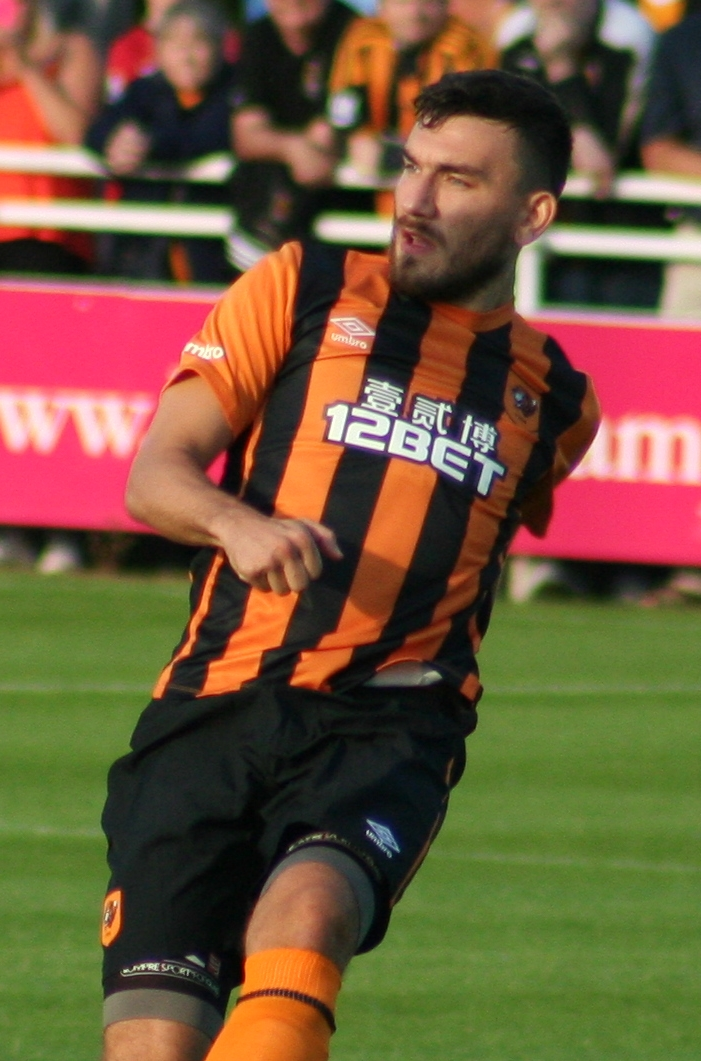 Robert Snodgrass playing for Hull City against North Ferriby United at Grange Lane, North Ferriby on 21 July 2014